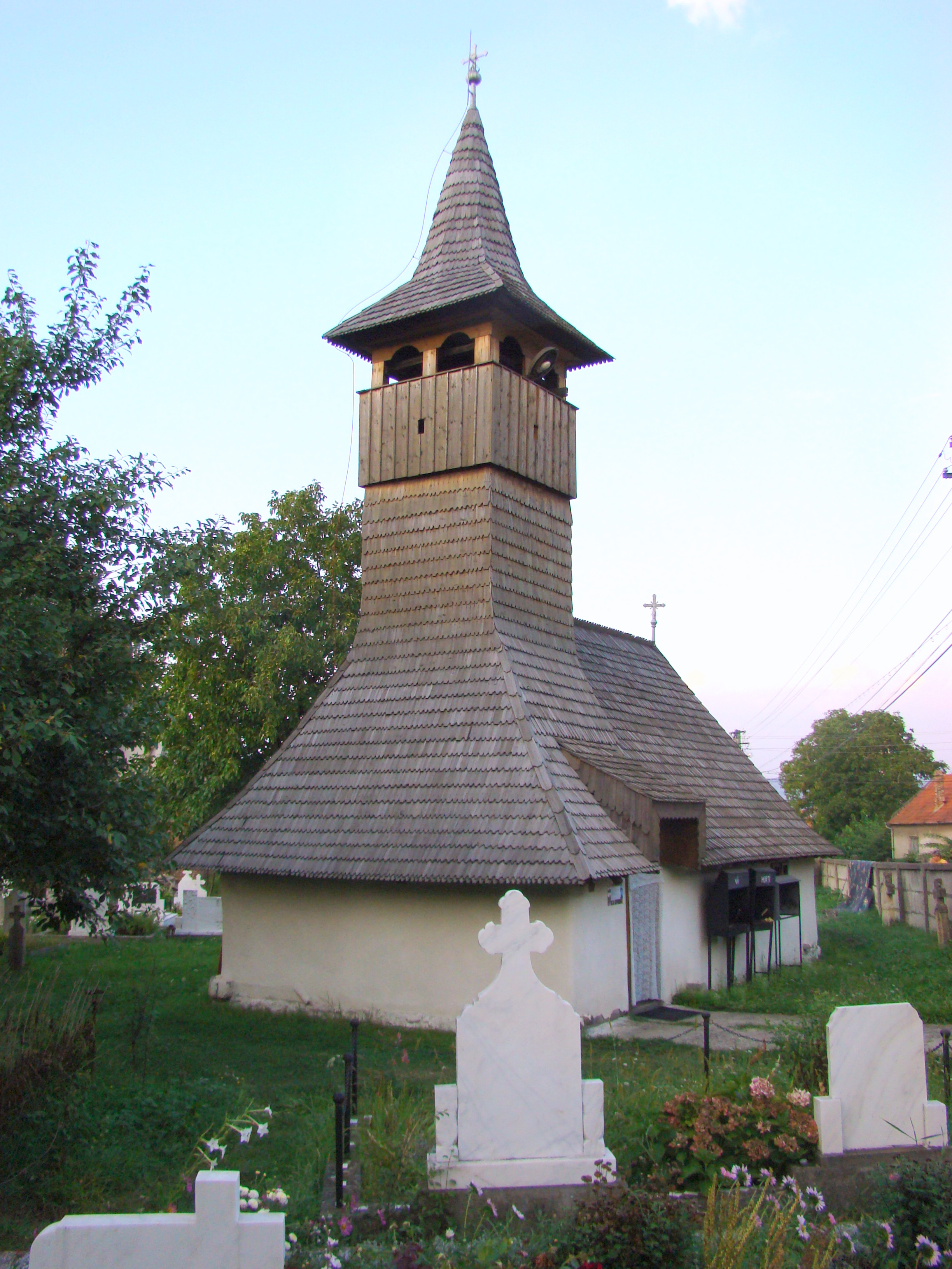 wooden Orthodox church in the former village in Vulcez (now merged with Vețel), Hunedoara County, Romania